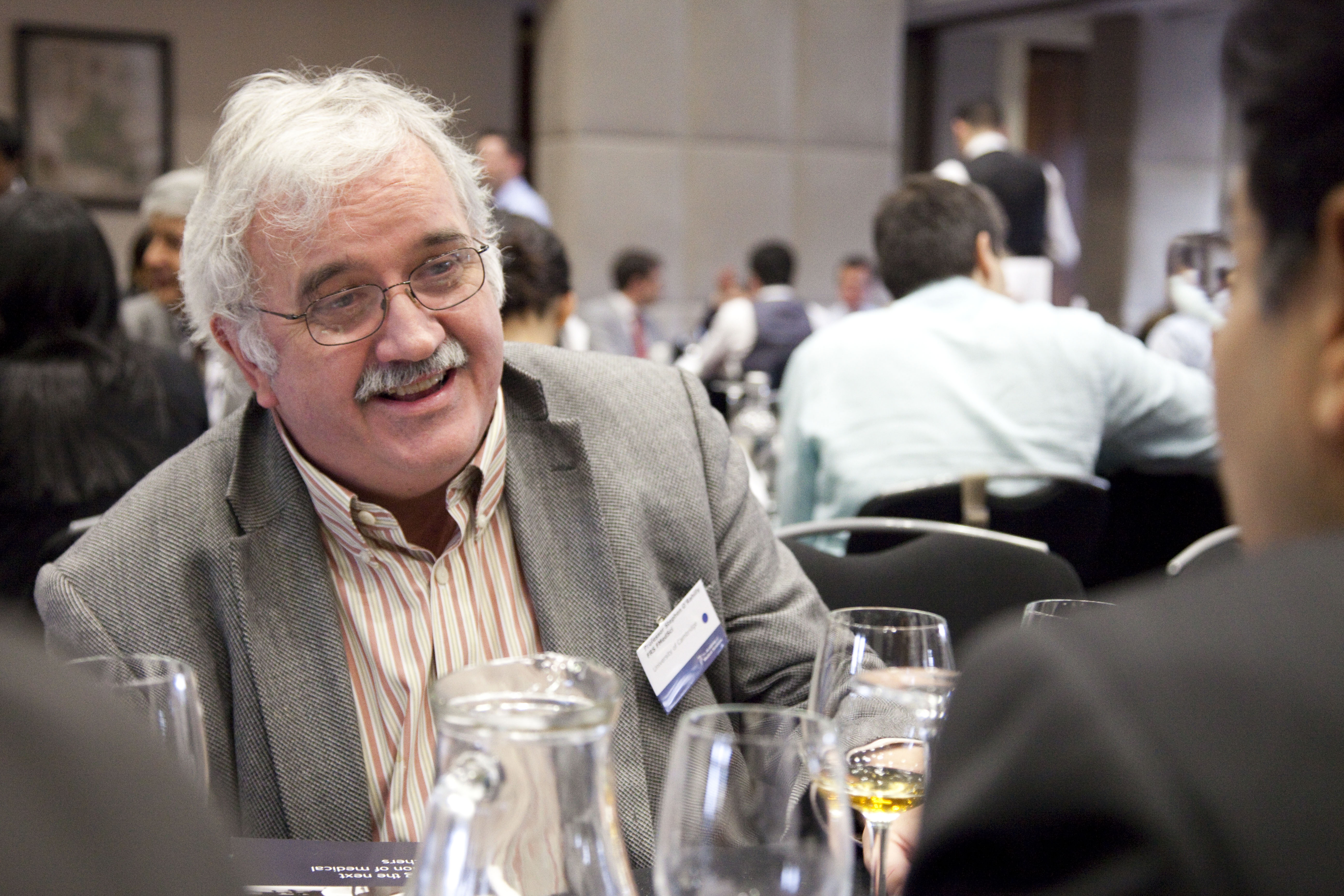 Professor Steve O'Rahilly FMedSci